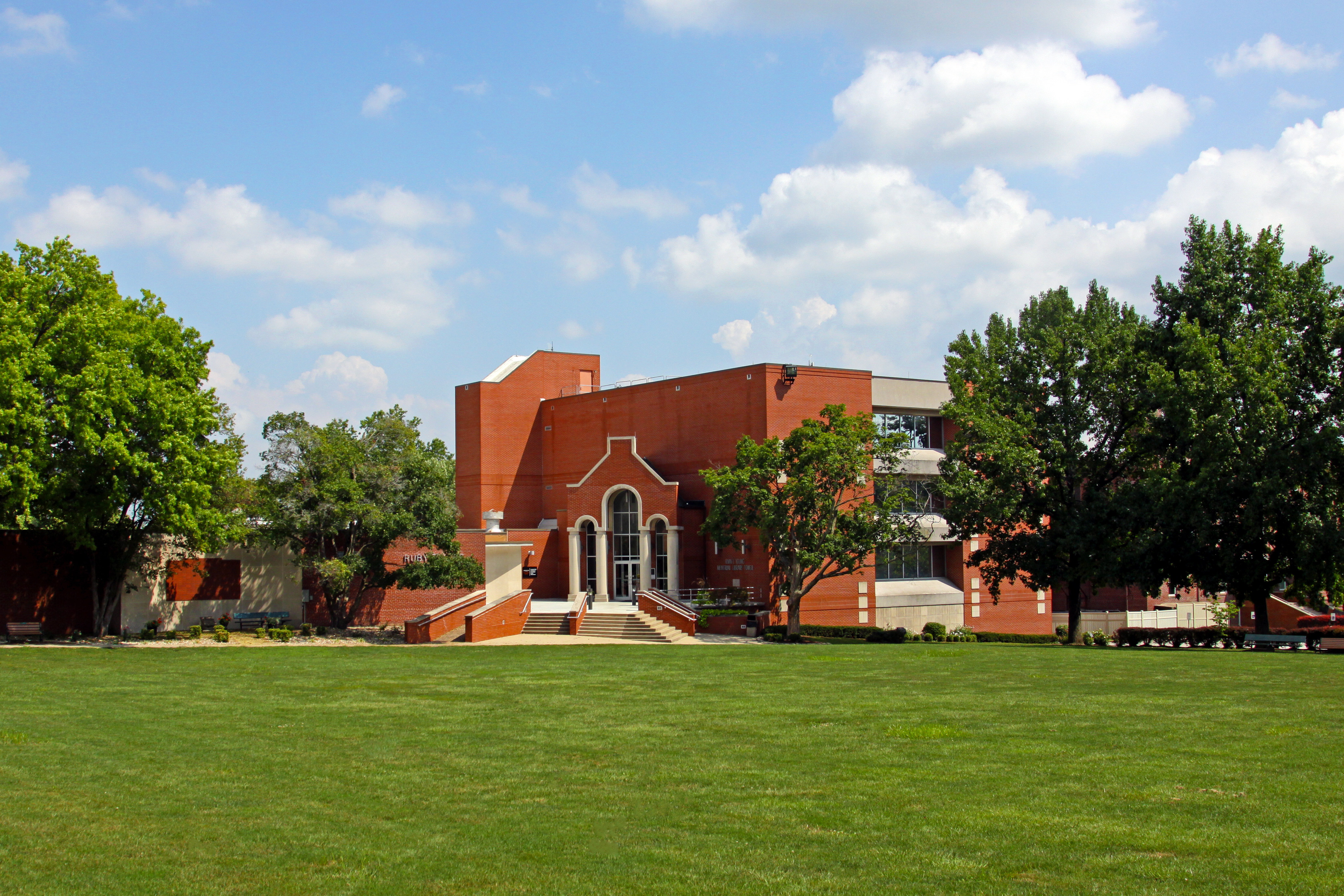 Greenville College on a sunny August day